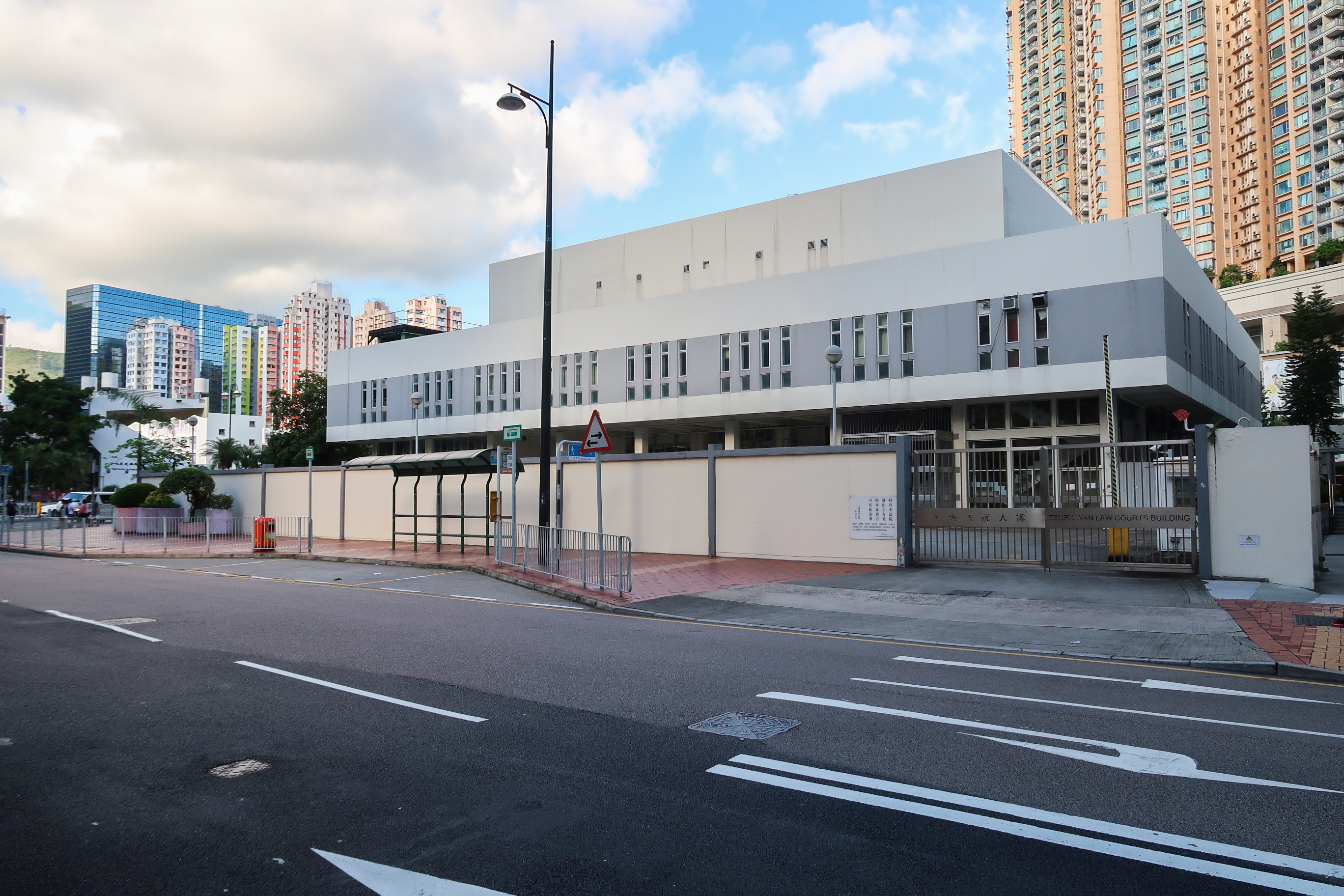 Tsuen Wan Magistrates' Courts